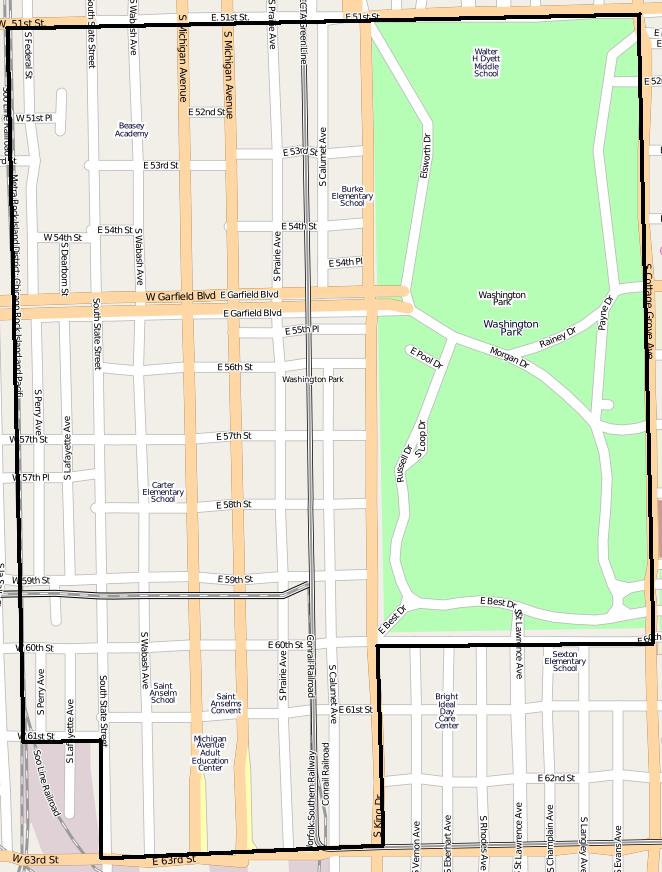 Washington Park, Chicago (neighborhood) This map may be incomplete, and may contain errors. Don't rely solely on it for navigation.